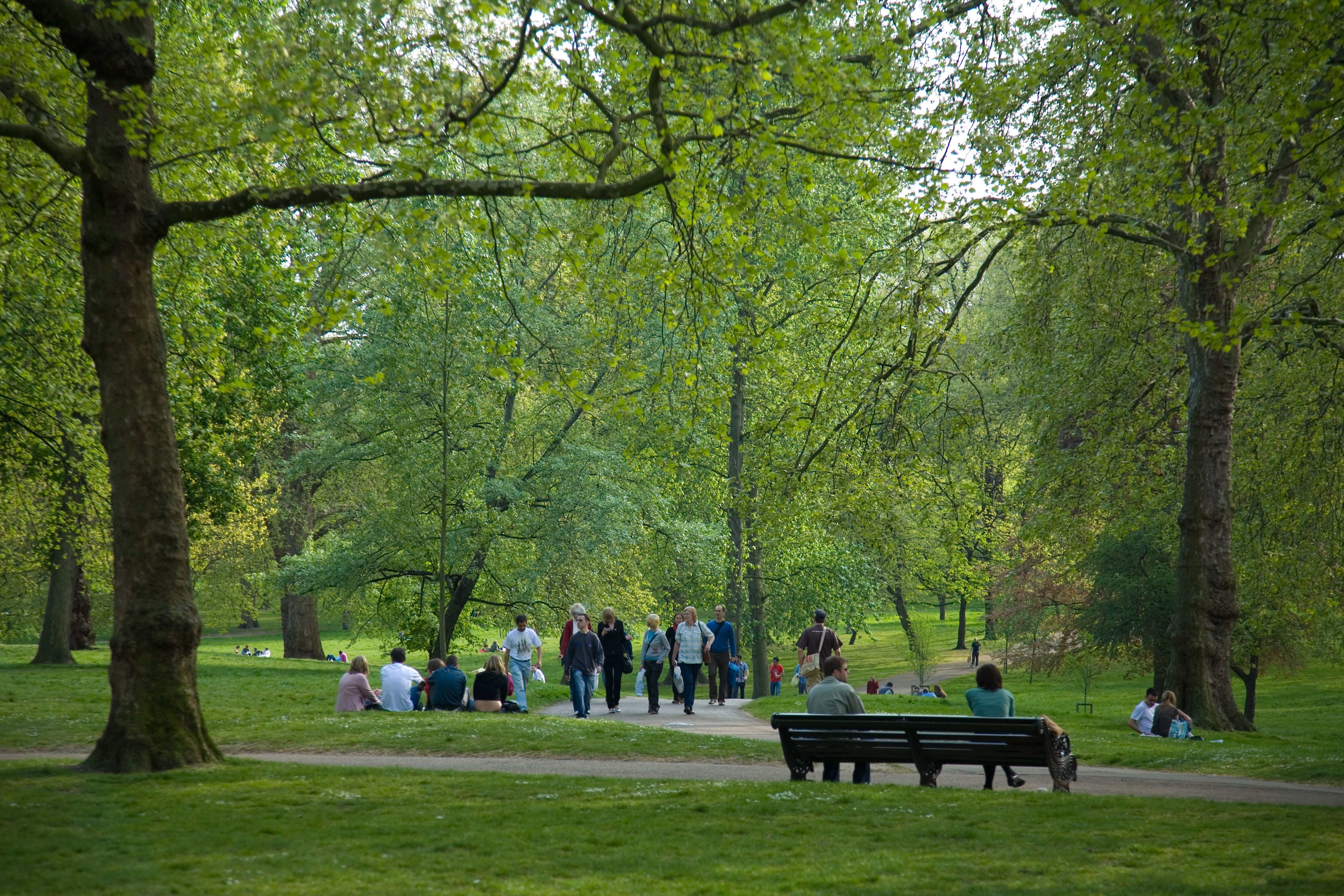 A spring day in Green Park, London, England. Taken by myself with a Canon 5D and 24-105mm f/4L lens.